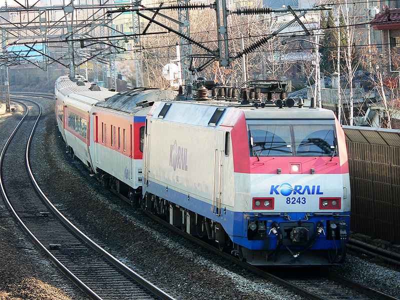 KORAIL 8200series electric locomotive (First variation)